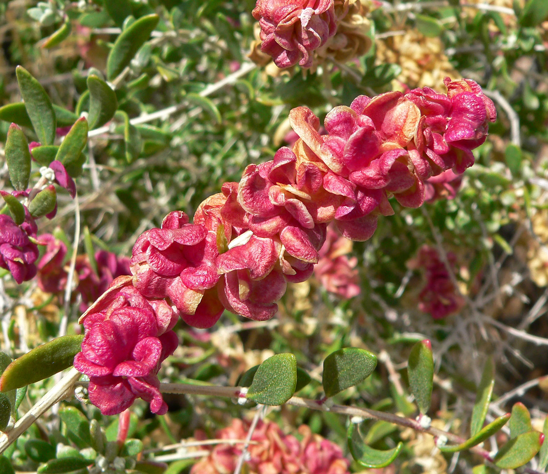 Photo of Grayia spinosa (hopsage) on hillside west of Las Vegas, Nevada, just outside Red Rock Canyon